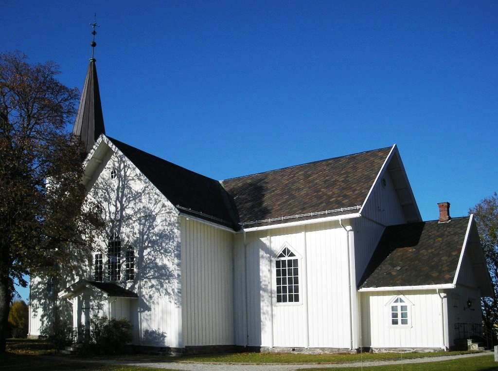 Søndre Høland church, Akershus, Norway